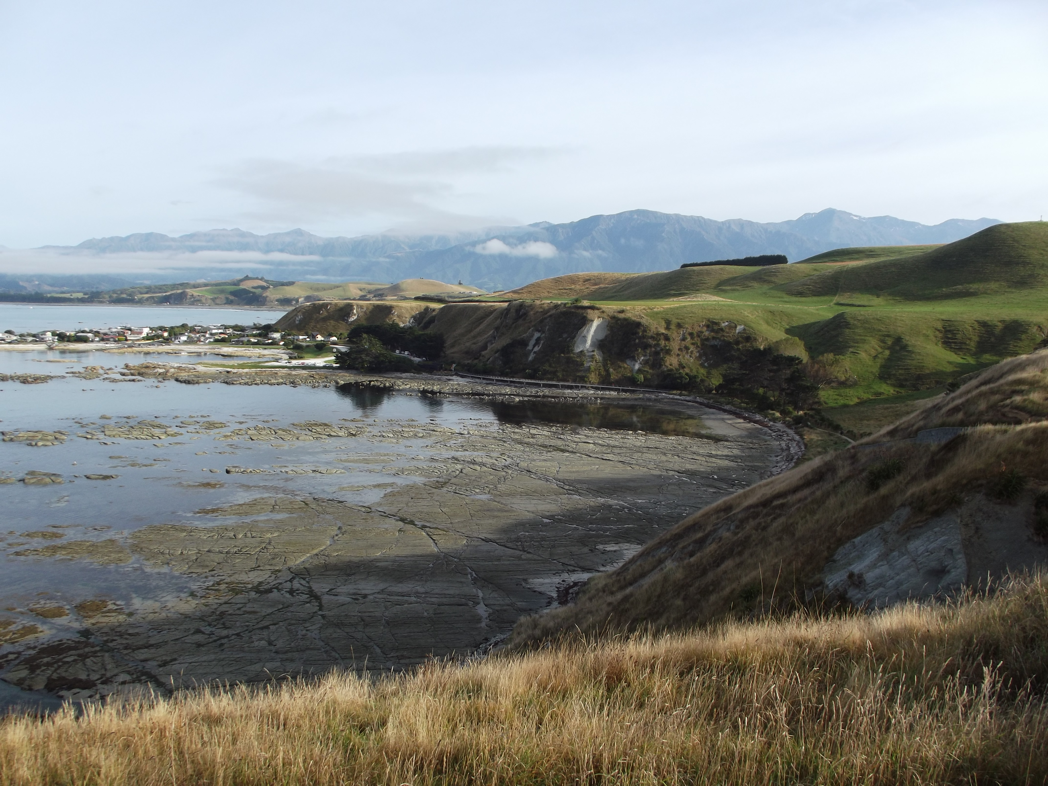 Kaikoura Coast from Peninsula